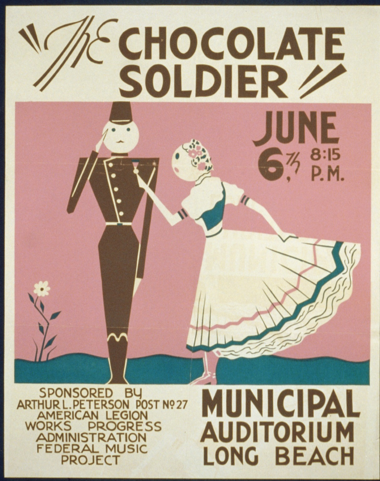 Title: "The chocolate soldier" Abstract: Poster for the Federal Music Project presentation of "The Chocolate Soldier" at the Municipal Auditorium, Long Beach, California. Physical description: 1 print (poster) : silkscreen, color. Notes: Work Projects Administration Poster Collection (Library of Congress).; Sponsored by American Legion Arthur L. Peterson Post No. 27.